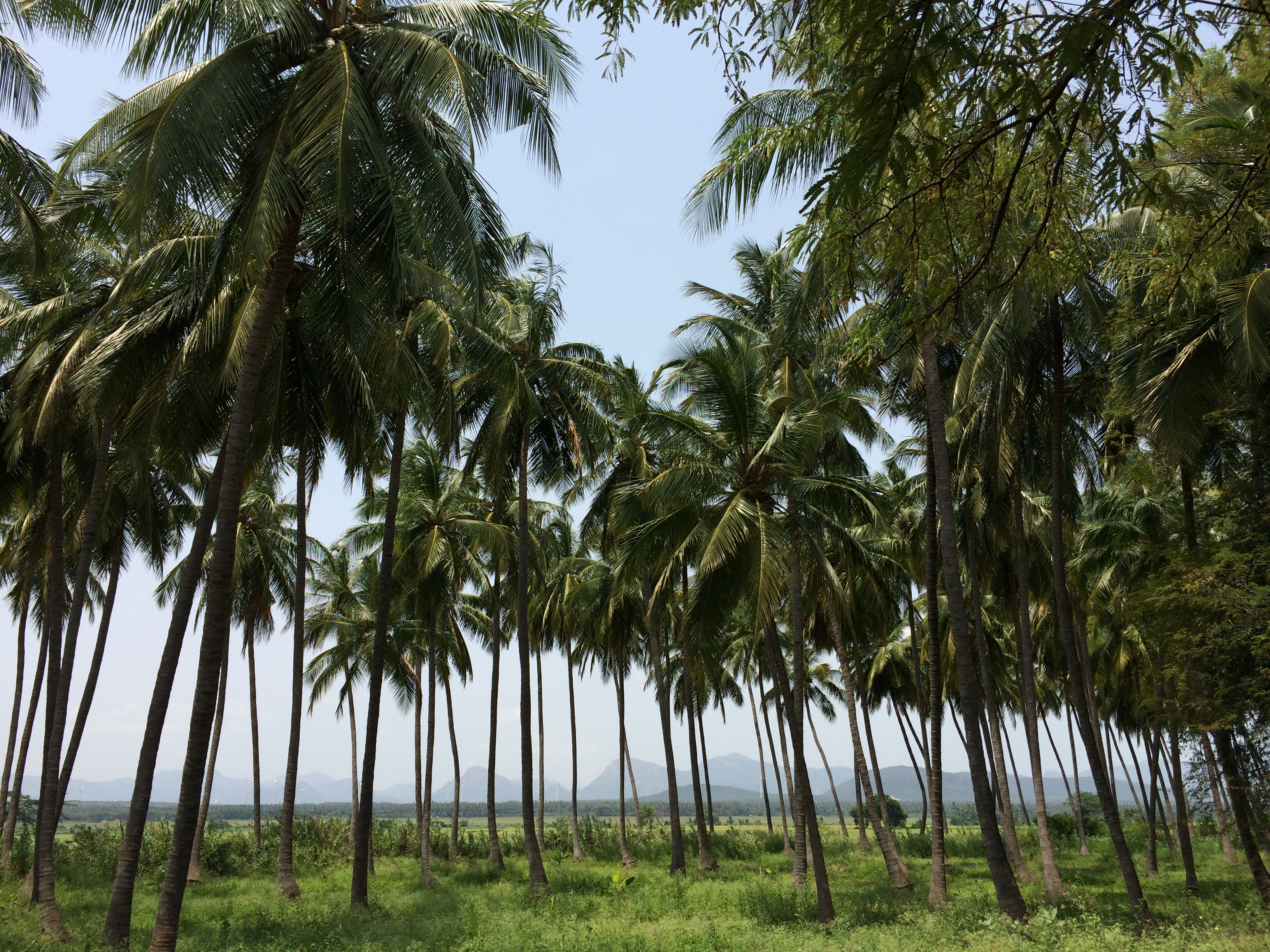 Coconut Trees Theni, Tamil Nadu, India 2015